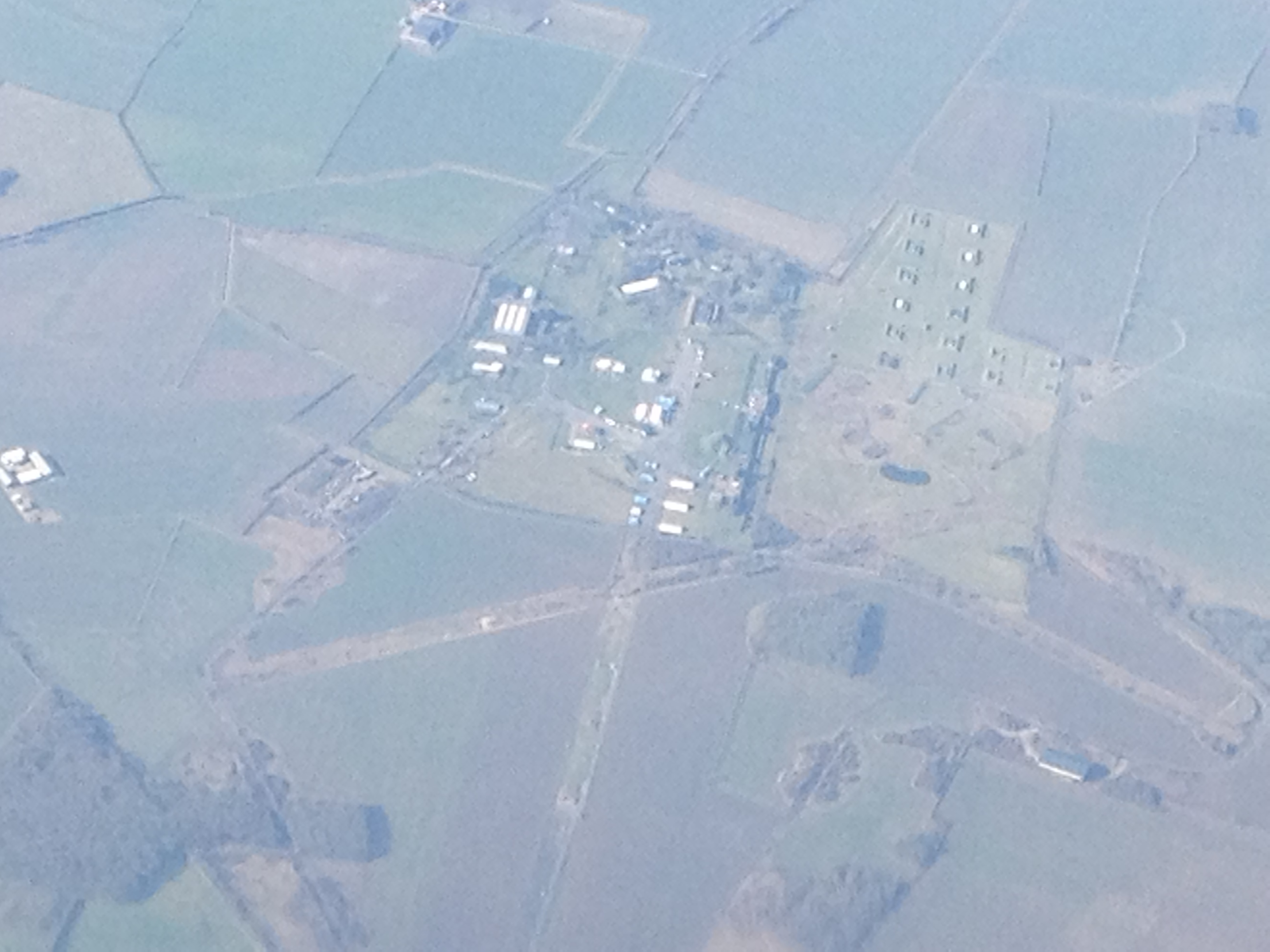 Aerial picture of the former RAF Faldingworth